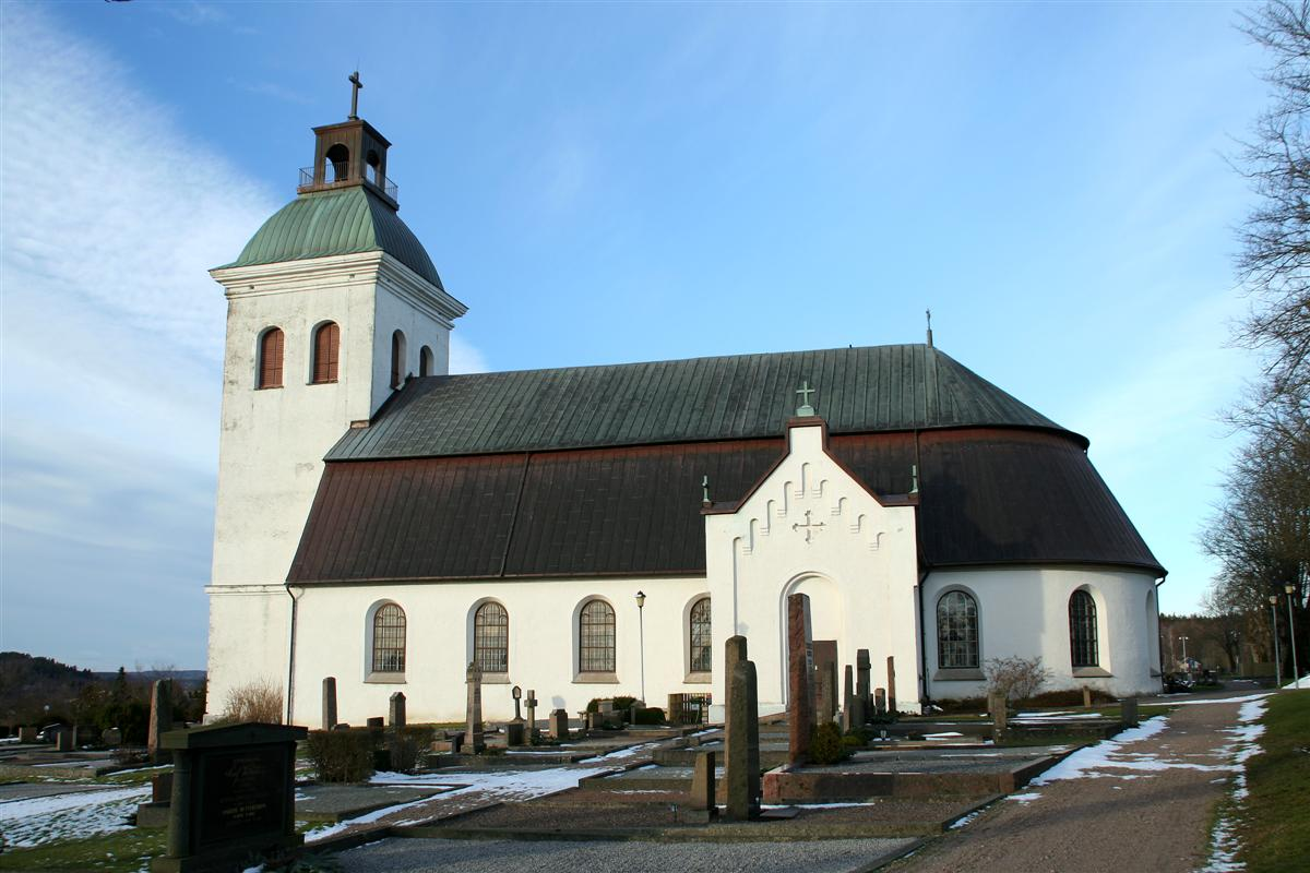 Fjärås Church